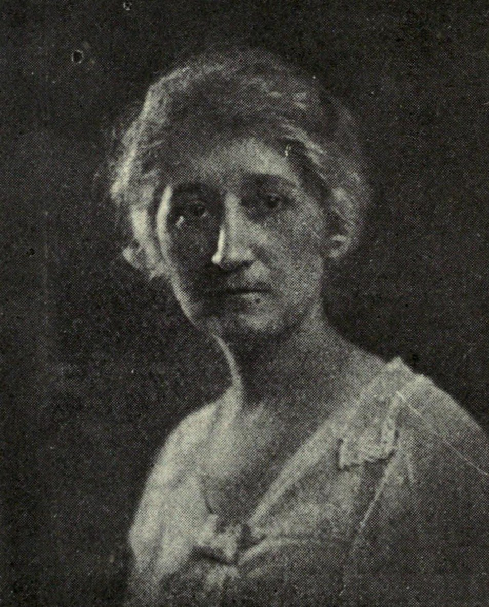 American artist Olive Rush (1873 - 1966).